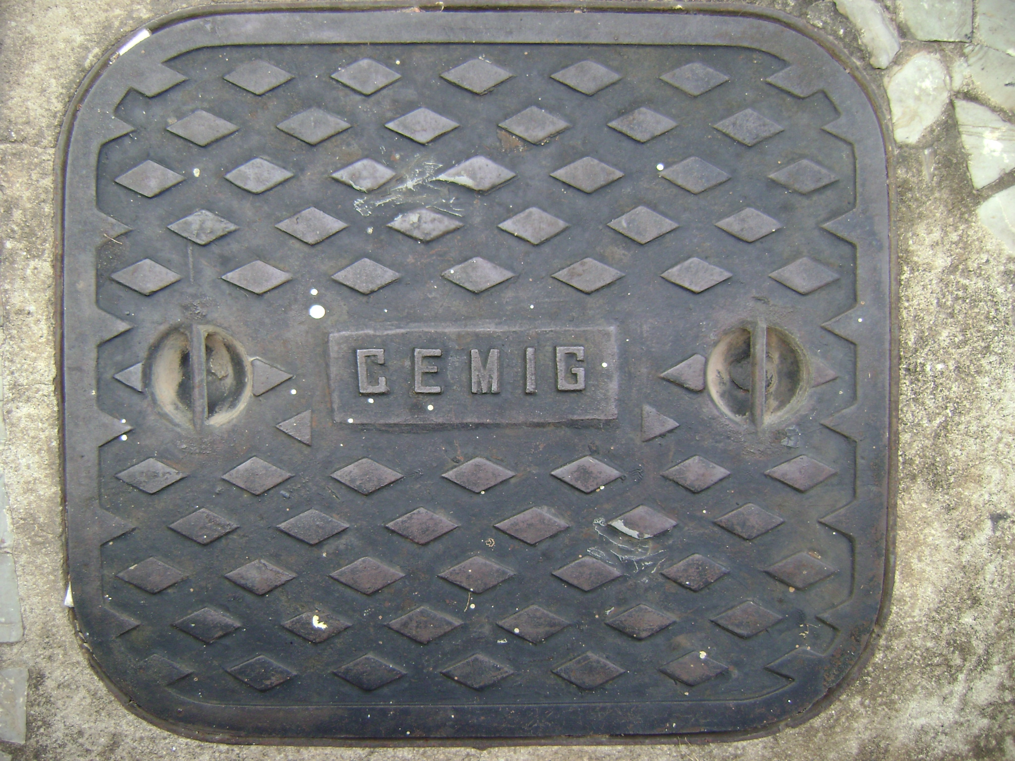 Bueiro da Cemig em Belo Horizonte.